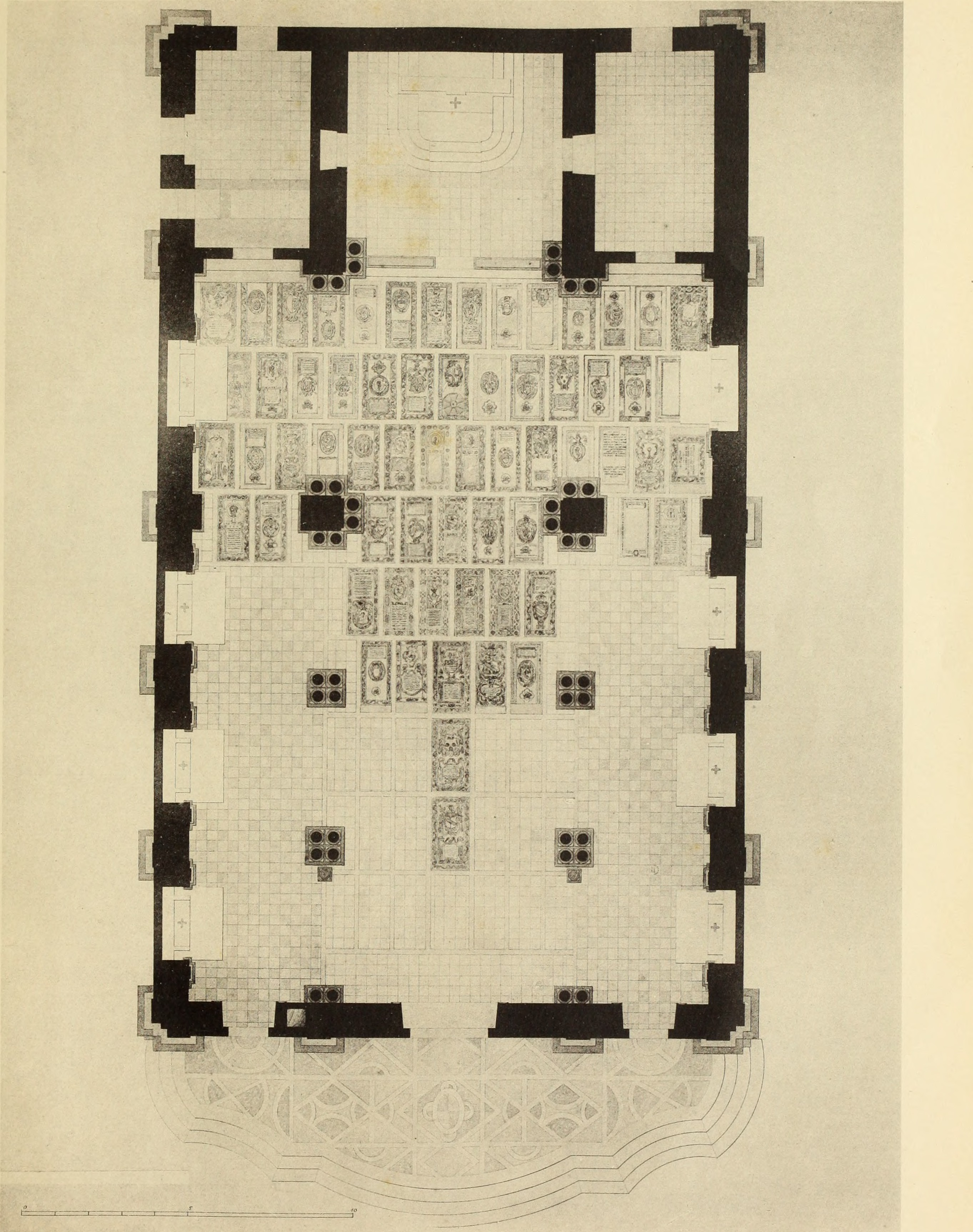 Title: La Chiesa di S. Giorgio dei Genovesi in Palermo Year: 1904 (1900s) Authors: Paterna Baldizzi, Leonardo, 1868-1943 Subjects: Chiesa di San Giorgio dei Genovesi (Palermo, Italy) Church buildings Church architecture Publisher: Torino : N. Bertolero Text Appearing Before Image: CHIESA DI S. GIORGiO DEI GENOVESI IN PALERMORilievi) dellArdi. L. Paterna-Baldizzi. - FACCIATA TAV. Il Text Appearing After Image: CHIESA DI S. GIORGiO DEI GENOVESI IN PALERMO - PIANTA Rilievo dellArdi. L. Paterna-Baldizzi.